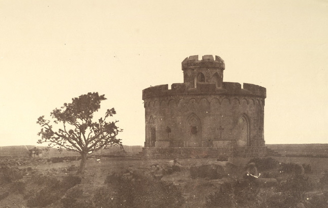 Delhi Flag tower, 1858.